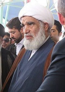 Abbas Ka'bi in Seyyed Ebrahim Raisi's campaign trip to Ahwaz